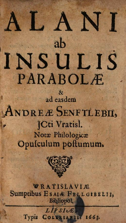 Parabolae et ad easdem Andreae Senftlebii notae philologicae. Opusculum ..., 1663, Alanus ab Insulis (1120-1202)